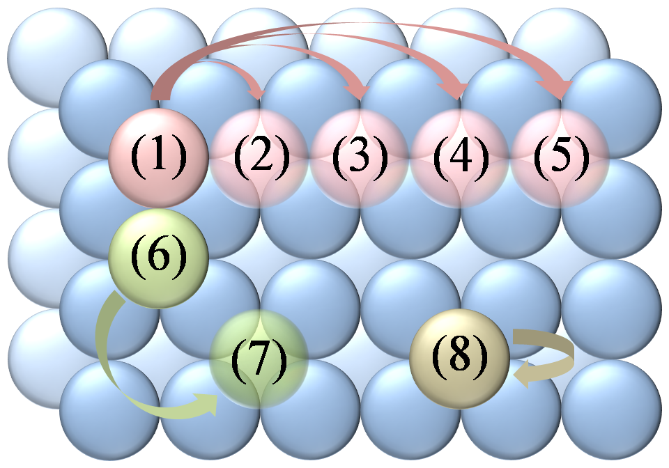 Surface diffusion jump mechanisms. Diagram of various jumps that may take place on a square lattice such as the fcc (100) plane. 1) Pink atom shown making jumps of various length to locations 2-5; 6) Green atom makes diagonal jump to location 7; 8) Grey atom makes rebound jump (atom ends up in same place it started). Non-nearest-neighbor jumps typically take place with greater frequency at higher temperatures. Not to scale. Image prepared using Microsoft Powerpoint 2007.